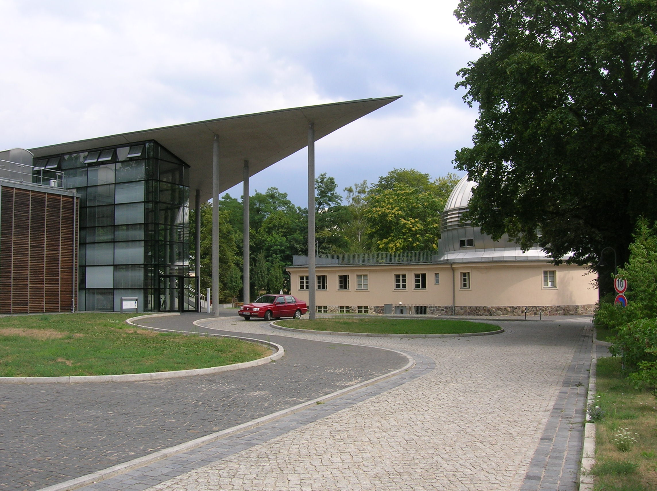 Leibniz Institute for Astrophysics